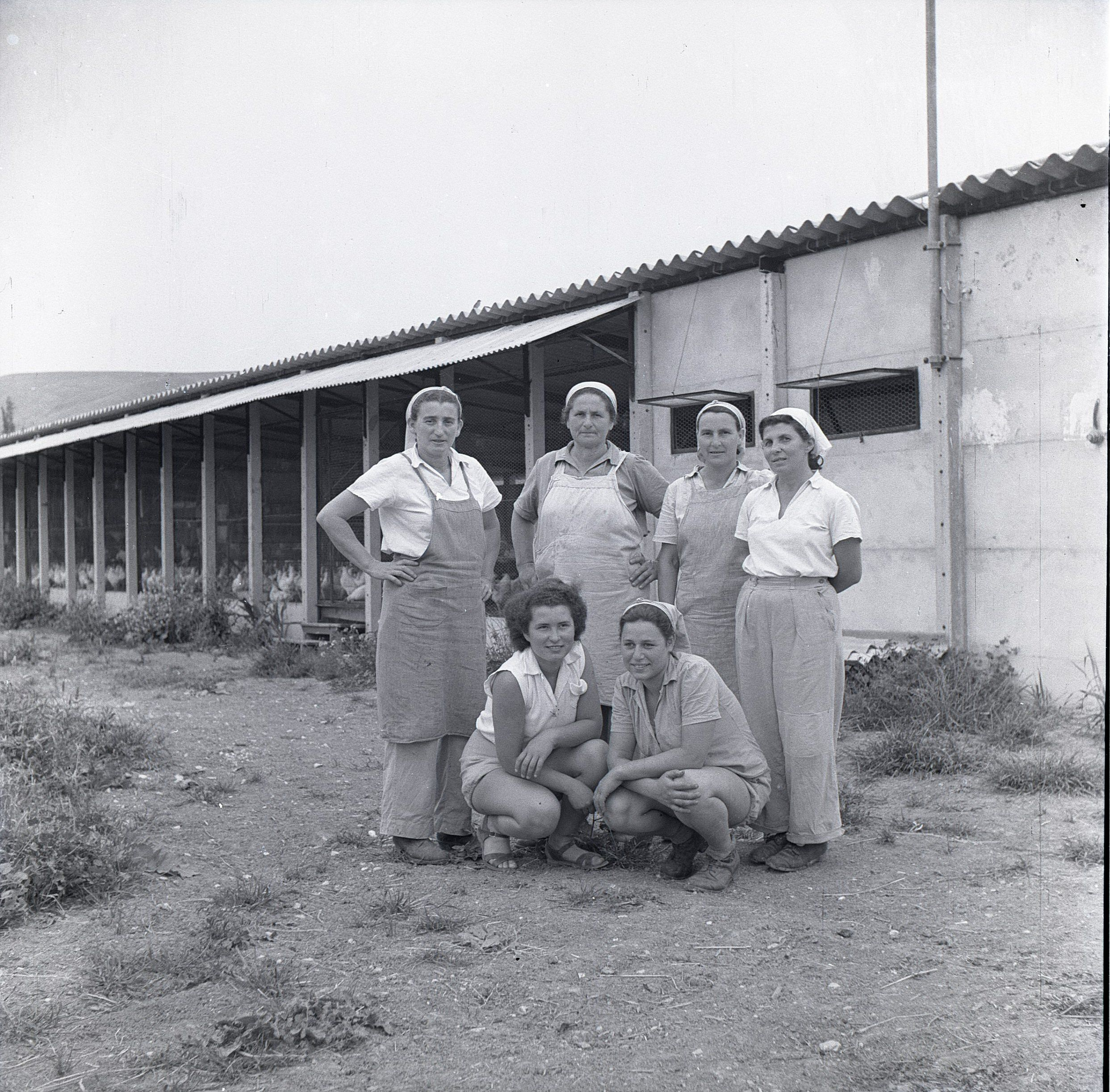 Women of the kibbutz in front of the poultry houses in the early 1950s